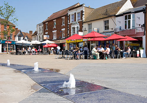 Kingsbury Square Aylesbury Bucks, June 2006. Author Robert Stainforth